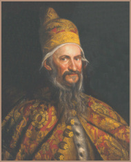 Giovanni Bembo (1543-1618)